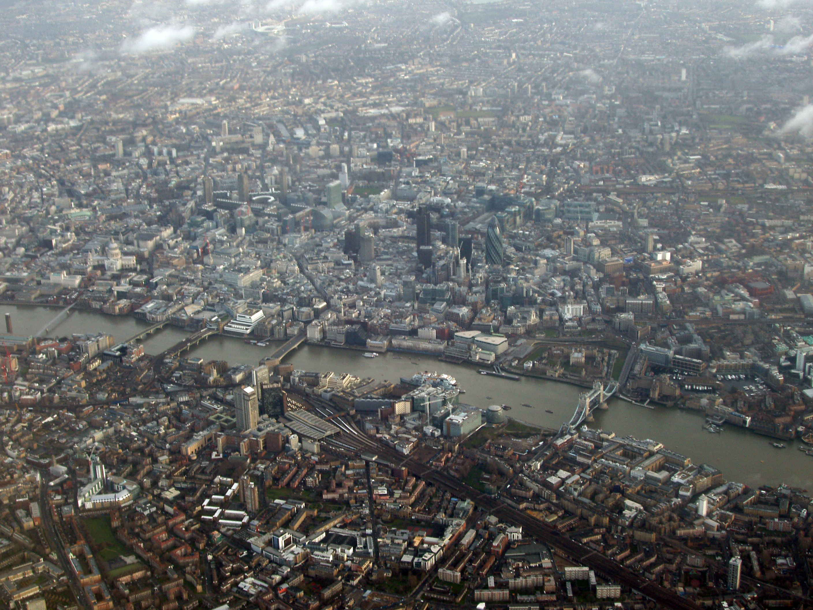 Aerial photo of London. Visible landmarks include Tower Bridge and the Tower of London; London Bridge with London Bridge station on the south bank; The Gherkin, Tower 42 and the City in the centre of the photo; St Paul's Cathedral on the left; and Arsenal's Highbury and Emirates Stadium at the very top of the frame. Taken by myself (Stevekeiretsu) 2006-03-25.